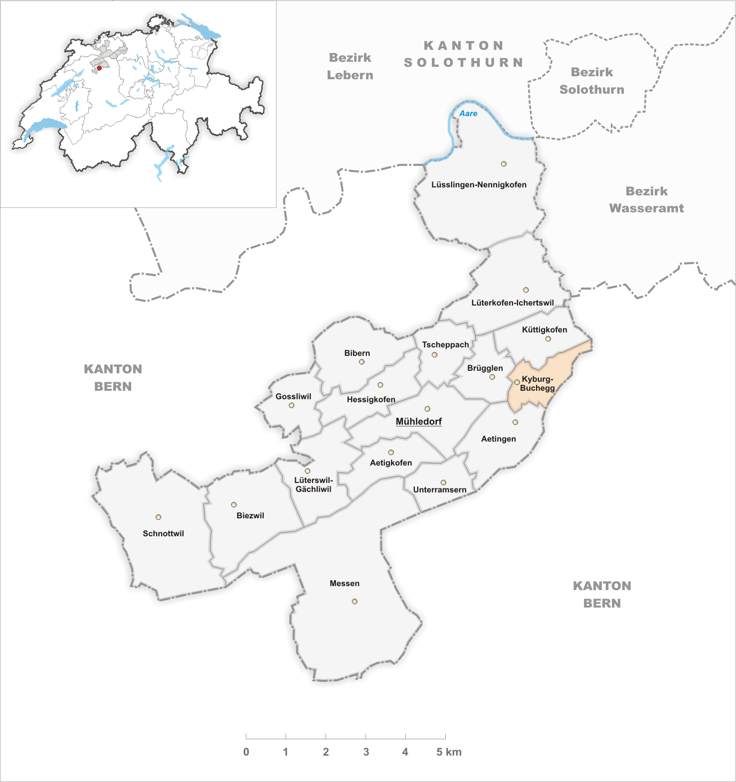 Municipality Kyburg-Buchegg